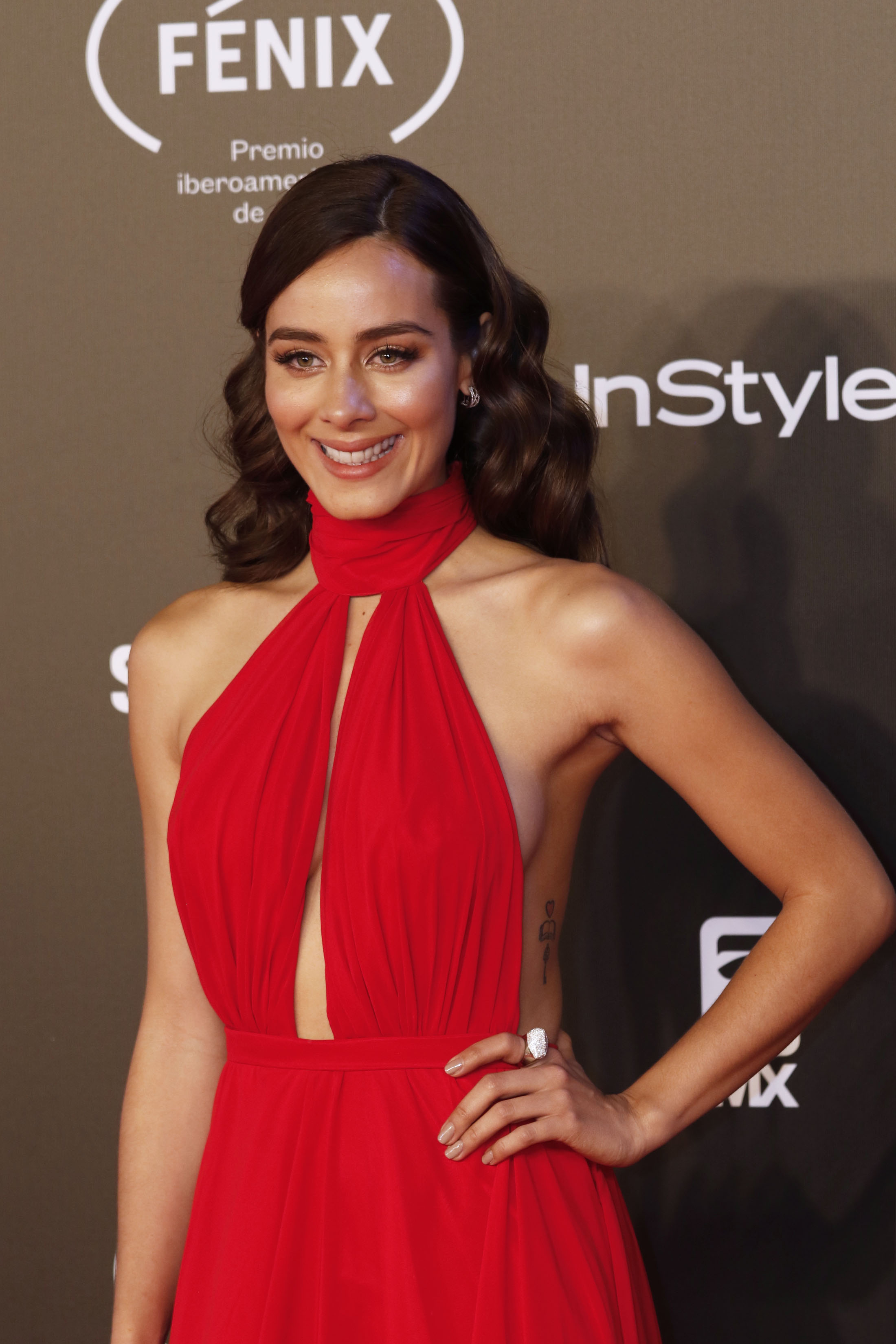 En el Teatro de la Ciudad Esperanza Iris, se realizó la 4ª Entrega del Premio Iberoamericano de Cine, Fenix, previo a la ceremonia, nominados, conductores, presentadores y elencos, desfilaron por la alfombra roja.